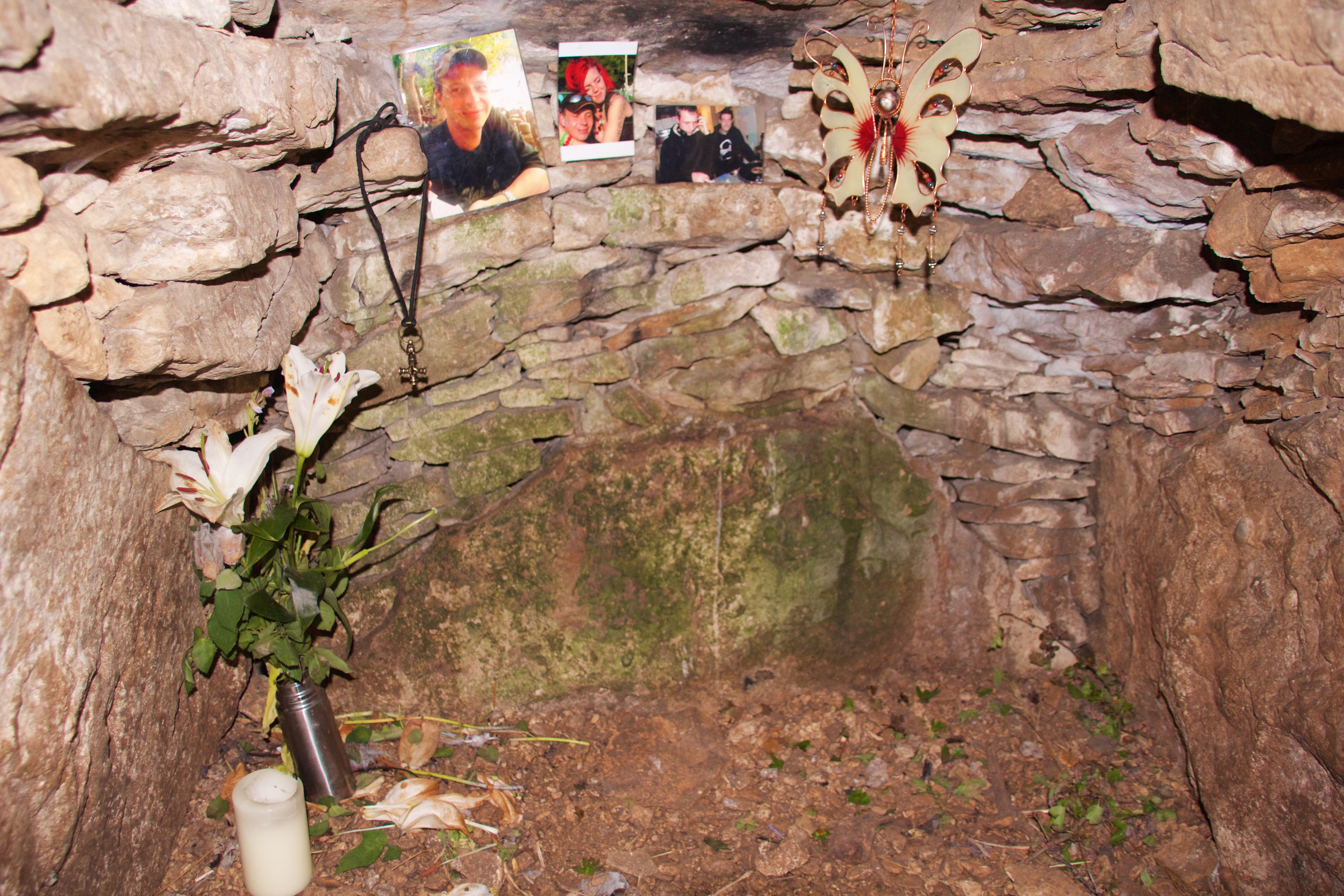 Stoney Littleton Long Barrow, near Wellow, United Kingdom